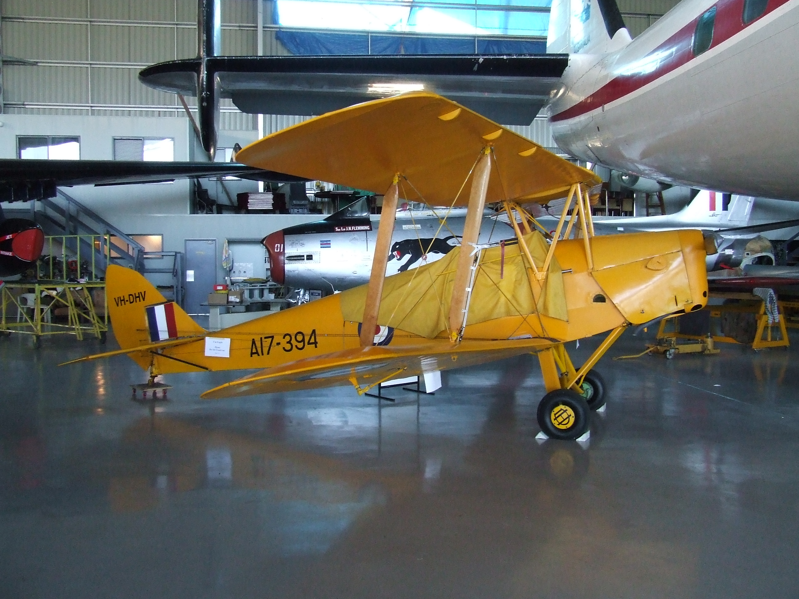 de Havilland Australia (DHA) built over one thousand DH.82 Tiger Moths during WWII for the RAAF, RNZAF, SAAF, RRAF and USAAF as well as various civilian organisations in Asia and Australia. This Tiger Moth is owned by Hawker de Havilland Aerospace, a Boeing Australia company and the successor to de Havilland Australia. It is operated by the Historical Aircraft Restoration Society from Wollongong Airport south of Sydney. This aircraft was actually the first of four assembled in the late 1950s by Airwork of Archerfield Airport from DHA-built spare parts. Photo of DH.82 VH-DHV/"A17-394" (c/n AW/TC/1) at Albion Park Airport by YSSYguy on May 12 2007 & uploaded for use in article about de Havilland Australia.